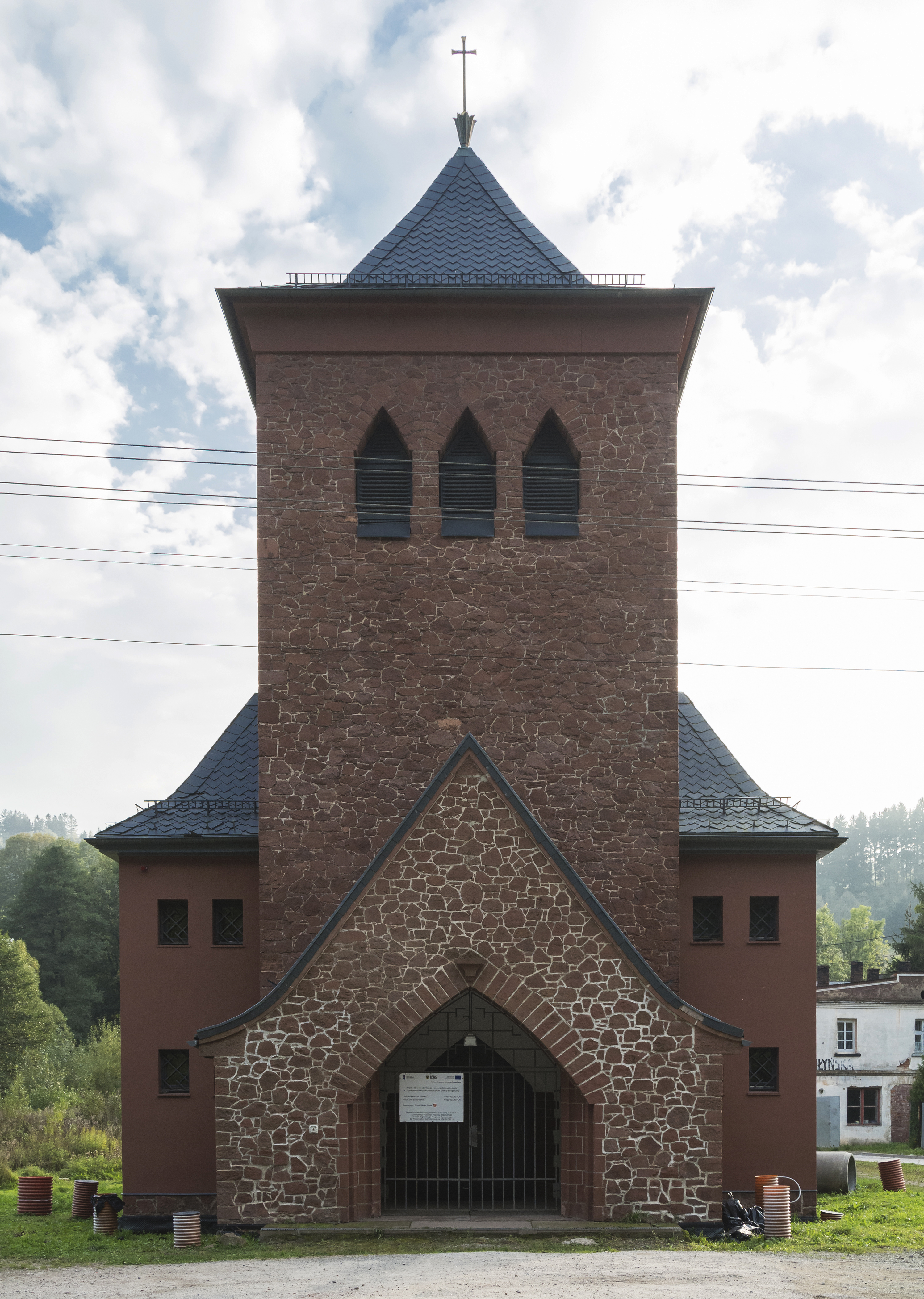 Muzeum Ziemi Sowiogórskiej in Ludwikowice Kłodzkie